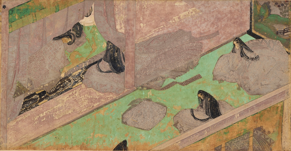 Part of the Murasaki Shikibu Diary Emaki. The image shows part of the scroll held at the Fujita Art Museum